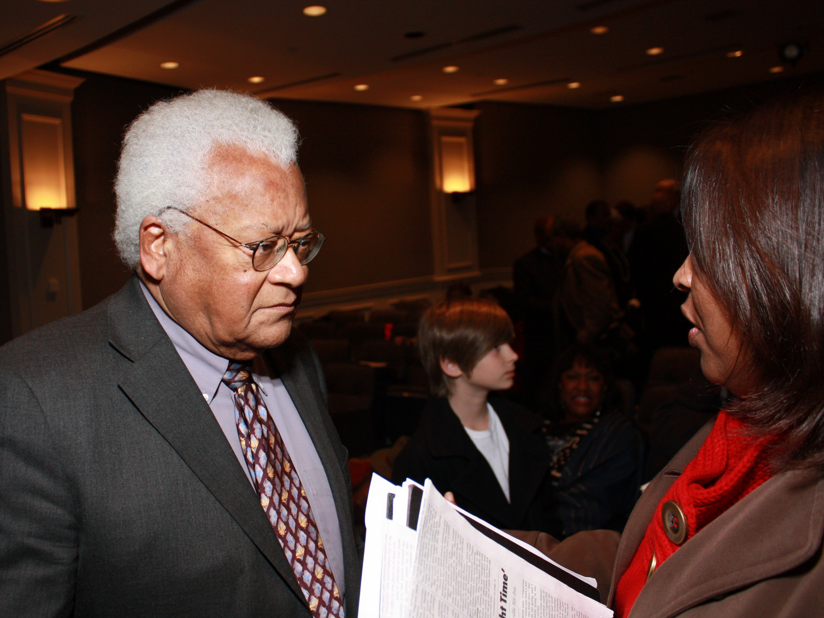 James Lawson talking with an audience member following the a panel discussion on the Nashville sit-in movement at Vanderbilt University.